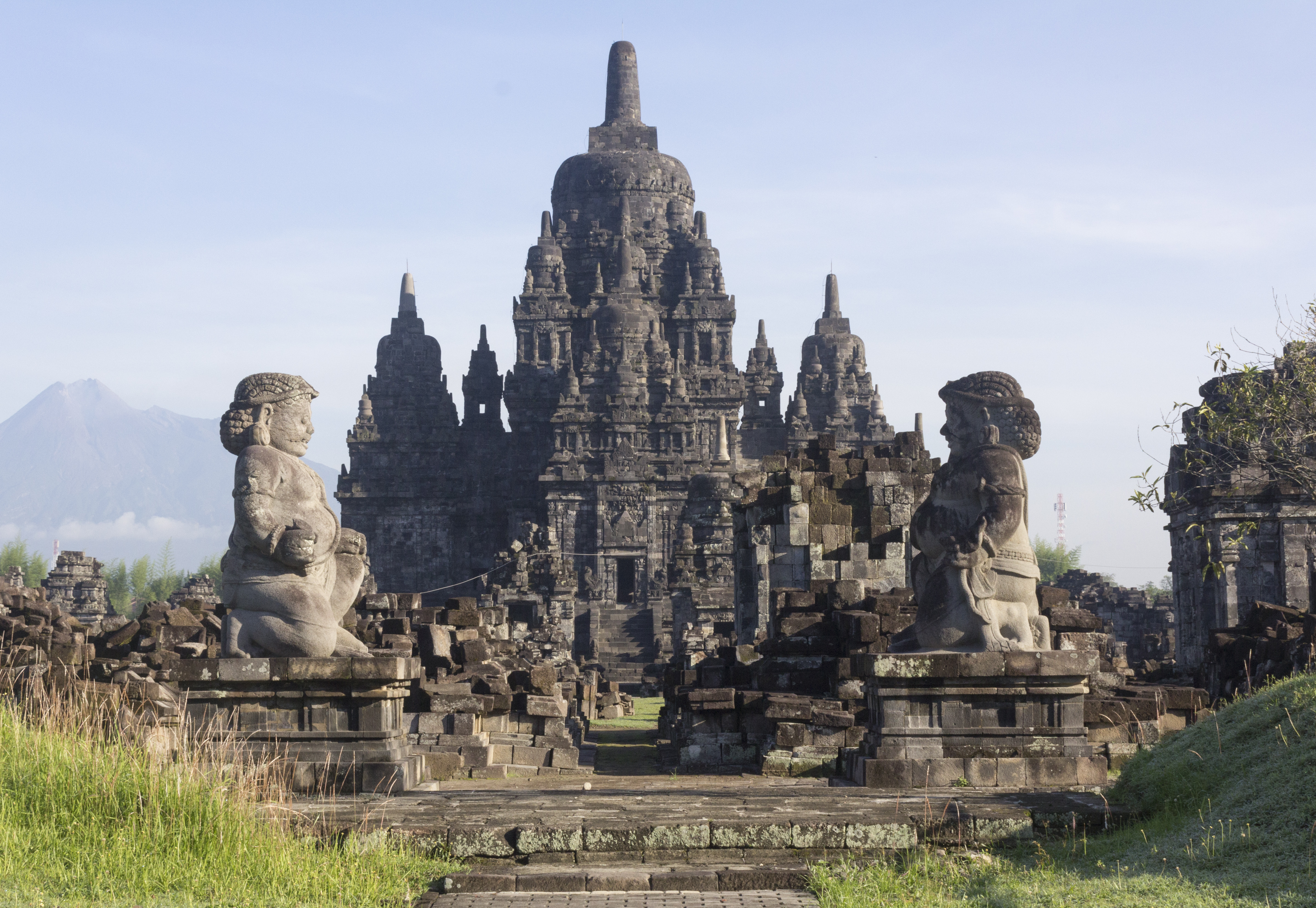 Candi Sewu viewed from the south, 23 November 2013